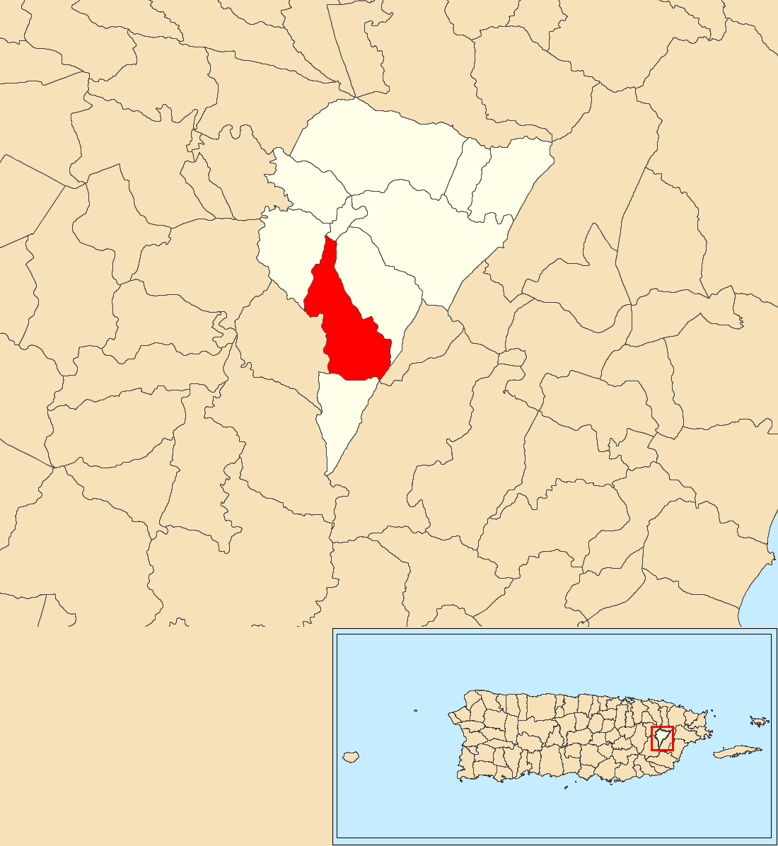 Valenciano Abajo, Juncos, Puerto Rico locator map